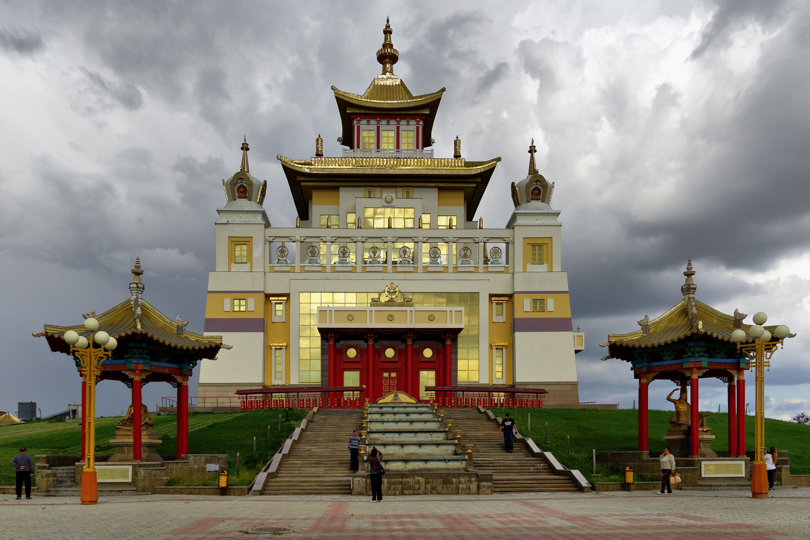 Elista. Burkhan Bakshin Altan Sume